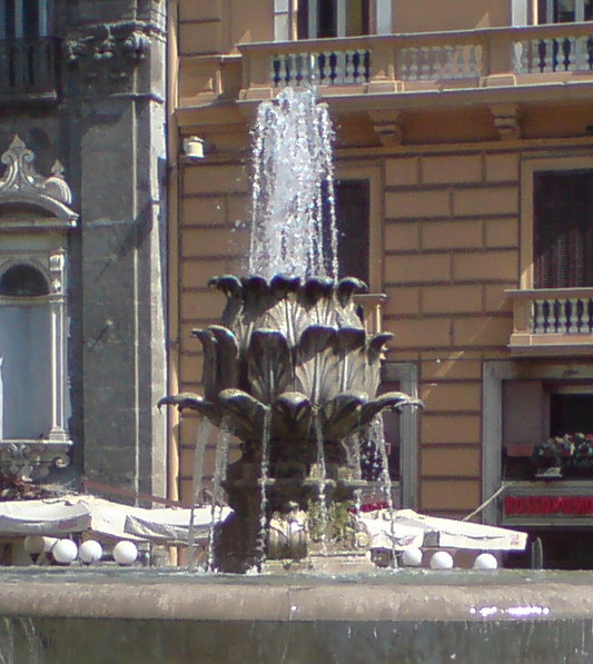 Fountain of Artichoke (detail), Naples - Italy.